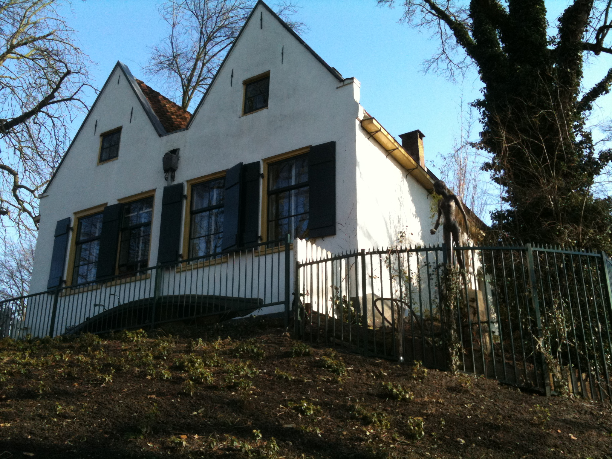 Manenburg 1, Utrecht, NL Also known as Manenborg